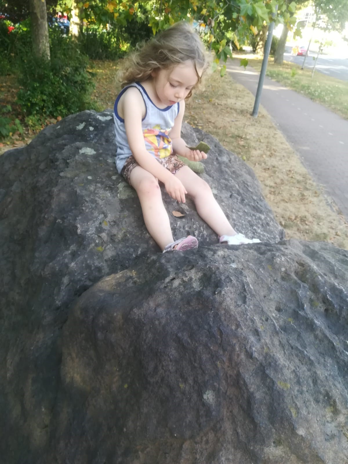 Child on the Horkenstein megalith in Hattingen